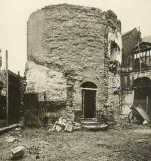 Maastricht, the Netherlands. View of Tweebergenpoort, a 13th-century tower which was part of Maastricht's first Medieval city wall, shortly before demolition in 1926.